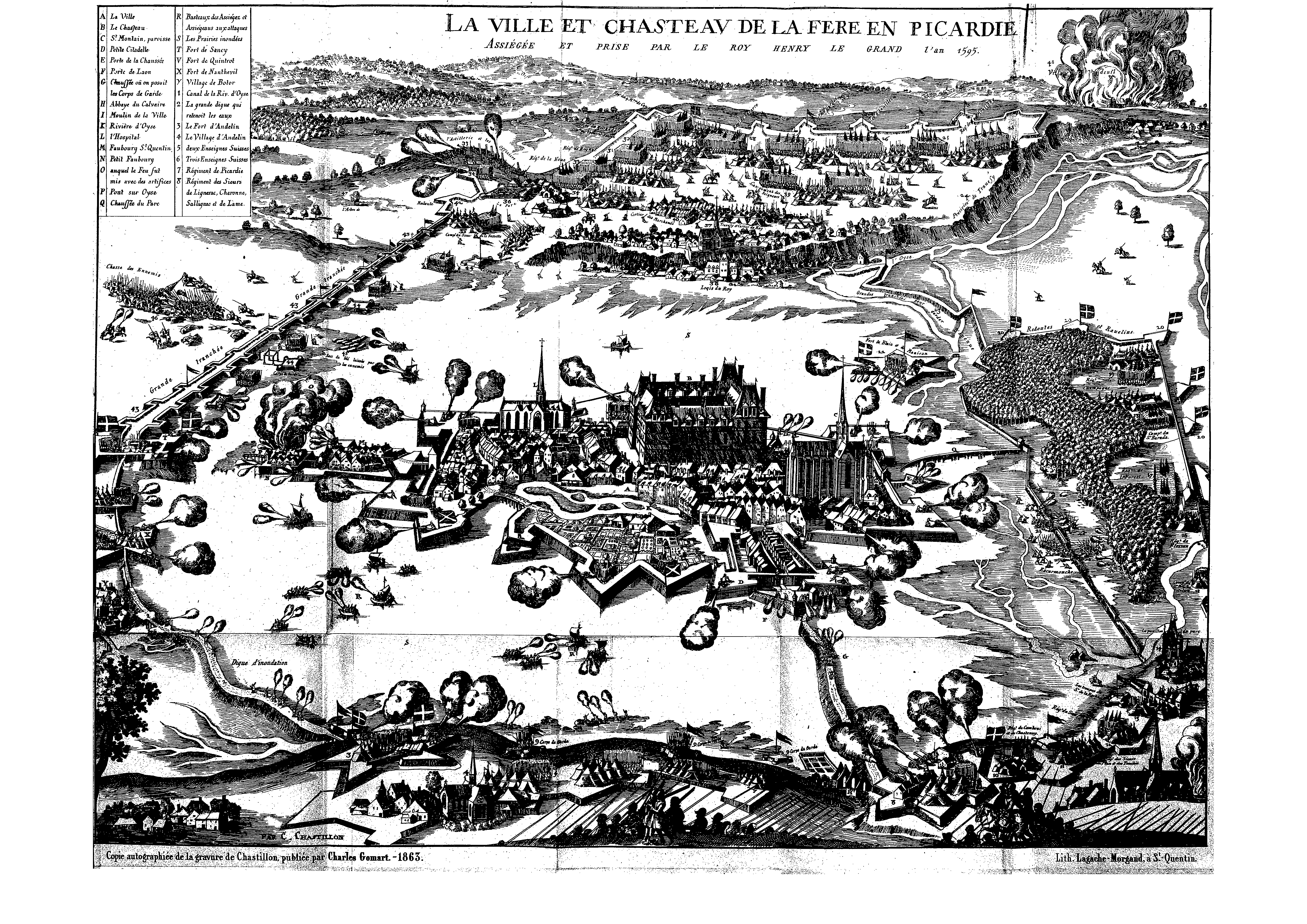 Town and castle of La Fère (Picardy) during a siege put by king of France Henry IV (1595).